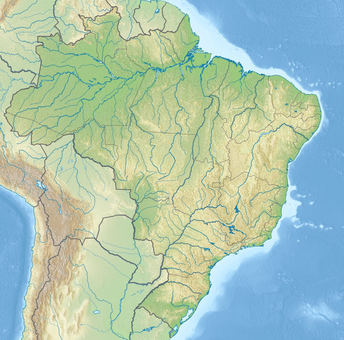 Location map of Brazil Equirectangular projection, N/S stretching 105 %. Geographic limits of the map: N: 6.0° N S: 34.0° S W: 74.5° W E: 32.0° W